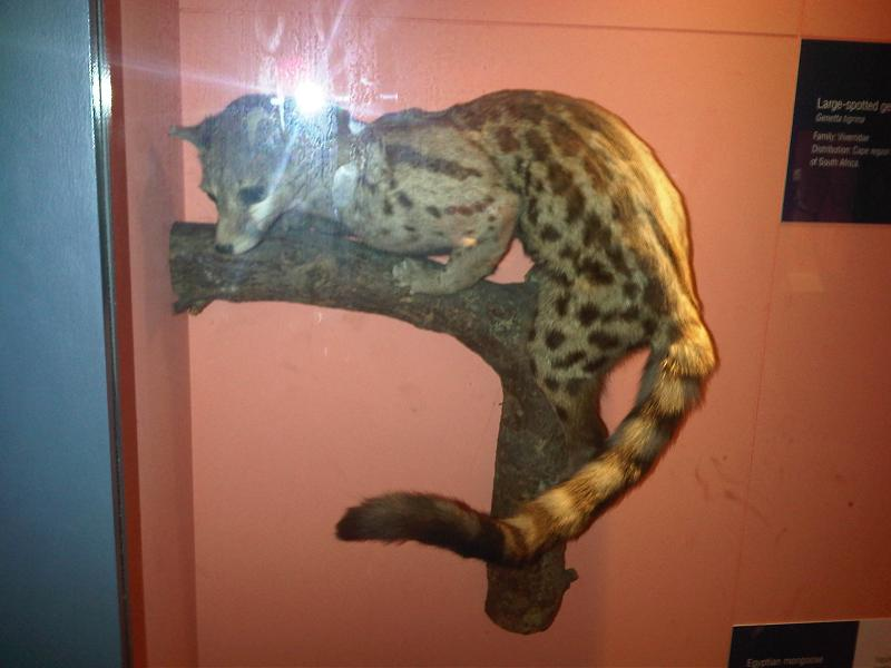 Taxidermied Cape Genet, also known as the Blotched Genet, Large-spotted Genet or muskeljaatkat in Afrikaans (Genetta tigrina) at the Natural History Museum in London, England.